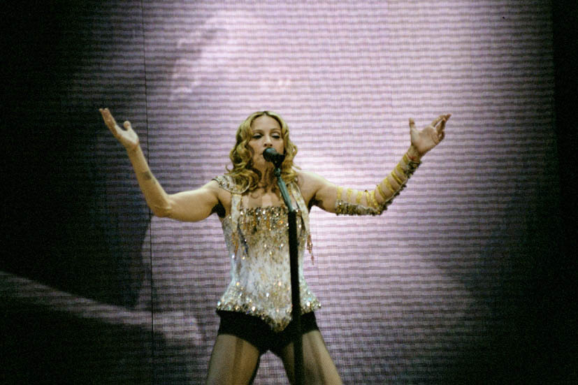 concert